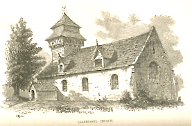 St Tysul's Church, Llandyssil c1855. Engraing from a drawing by Harry Longville Jones. Archaeologia Cambrensis, Vol 1, fifth ser.1884, pg 91